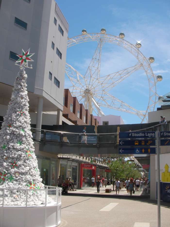 Studio Lane, Waterfront City. Melbourne Docklands.